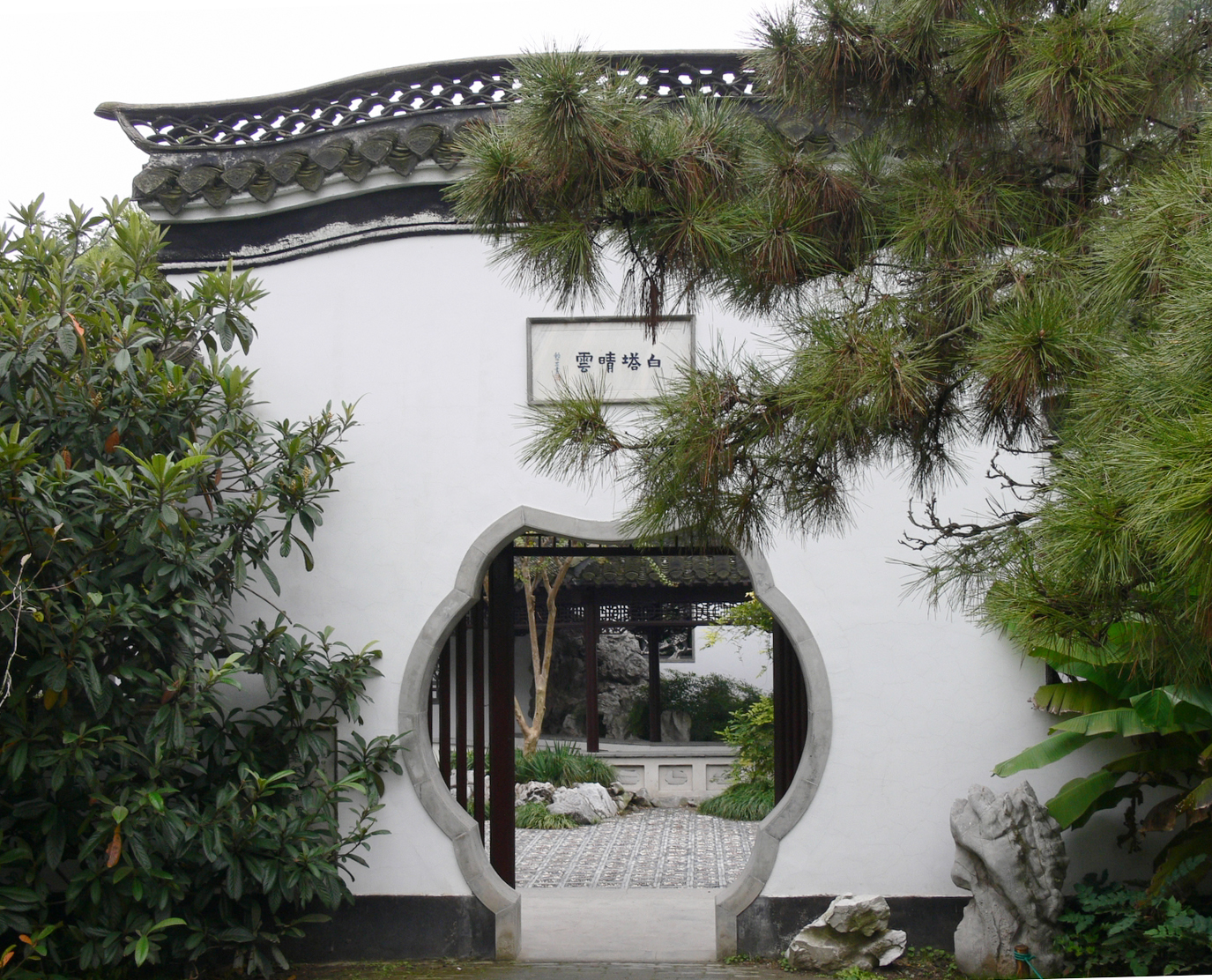 White pagoda clear sky and cloud garden 扬州瘦西湖白塔晴云